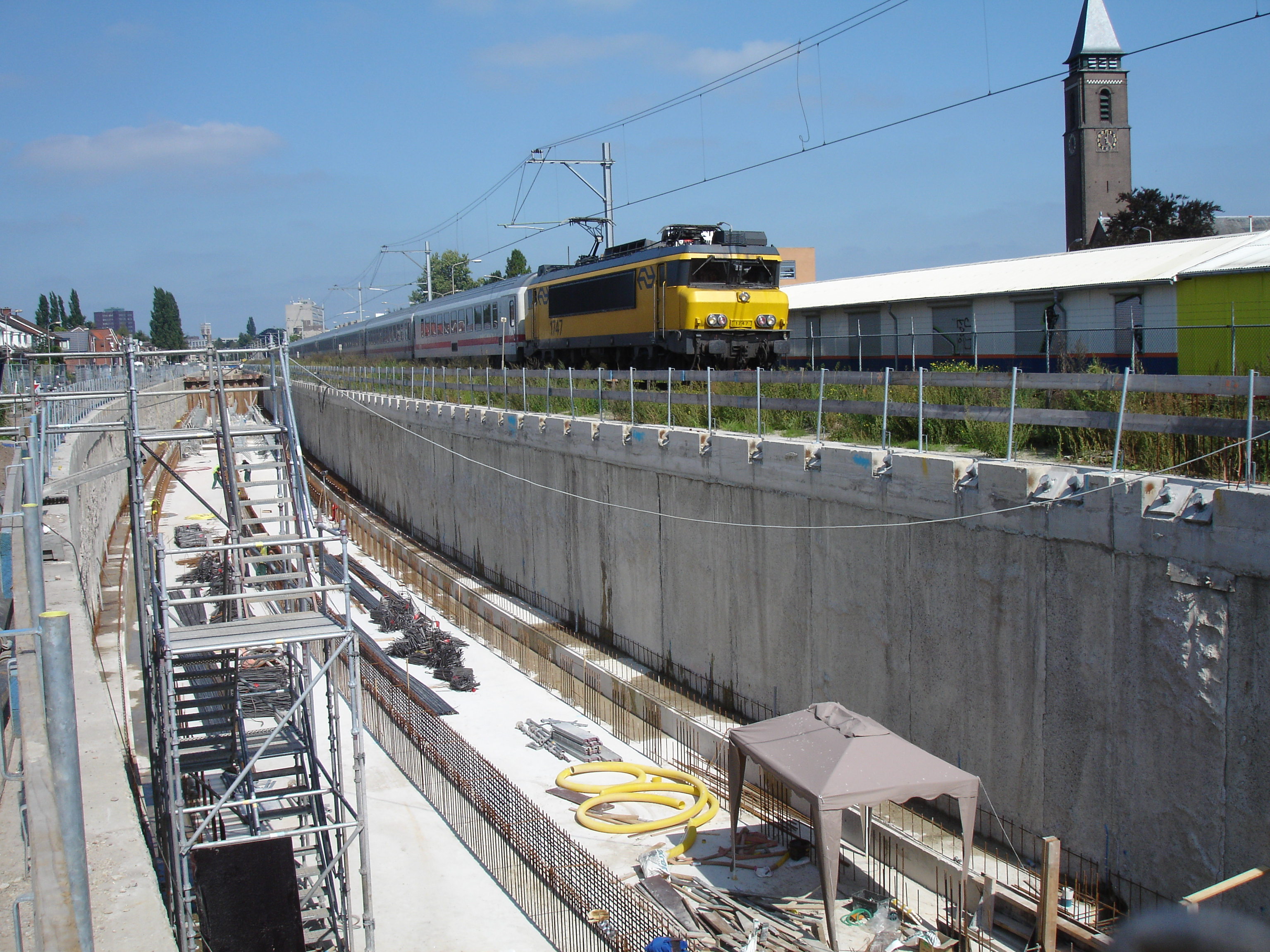 Railway being lowered